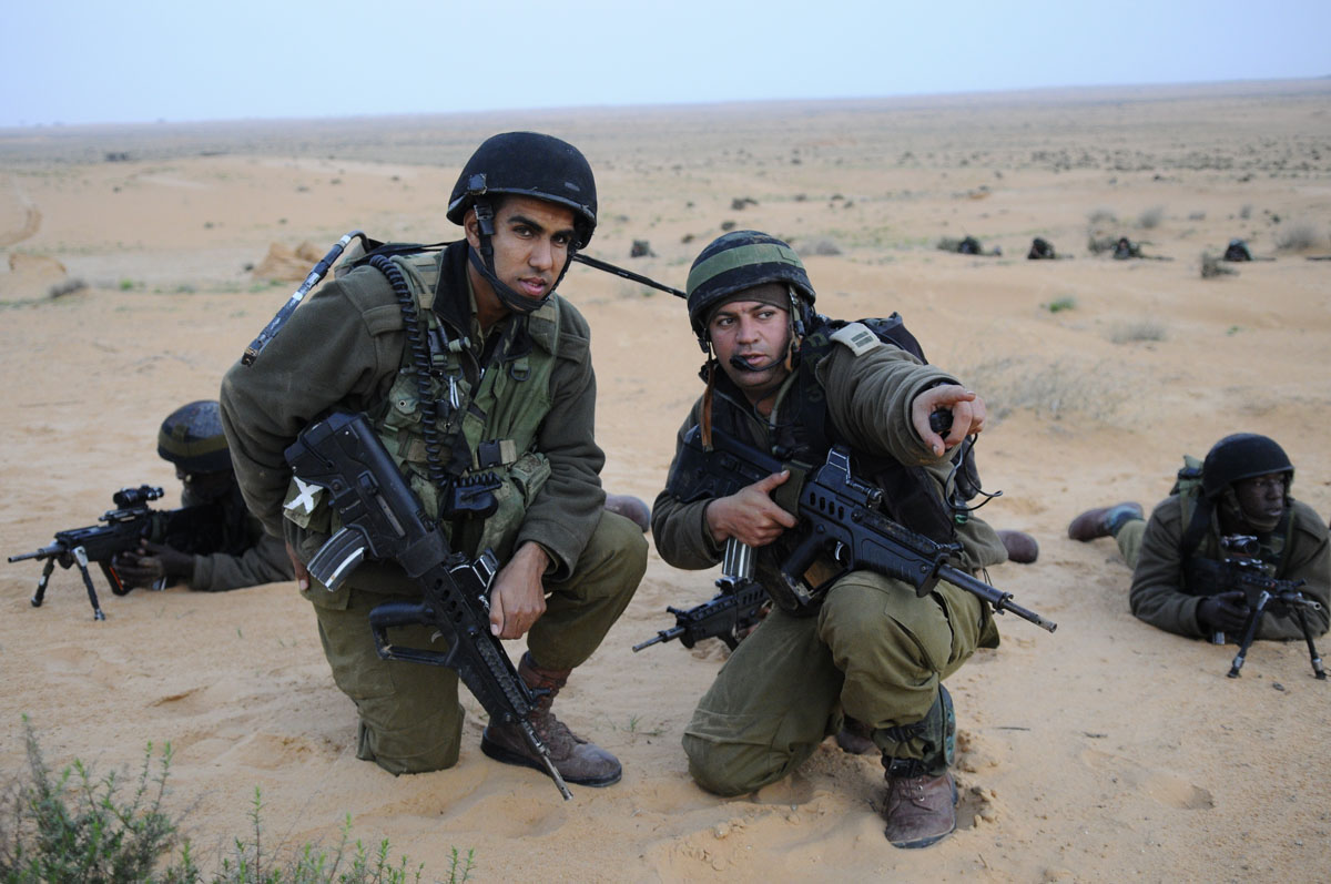 April 2, 2012 Last week, the Desert Reconnaissance Battalion conducted a drill in the Urban Warfare Training Center, simulating fighting in populated cities. The drill was conducted to assure maximum efficiency while fighting in urban centers by focusing solely on hostile targets. The Desert Reconnaissance Battalion, also known as "the natural detectives" is comprised almost entirely of Bedouins whom, though exempt from service, volunteered to serve in the IDF. These soldiers use their unique abilities to track down infiltrators and other threats in the vast Israeli desert. Photographed by Cpl. Gal Asuach, IDF Spokesperson's Unit. The Israel Defense Forces Facebook The Israel Defense Forces blog Follow us on Twitter